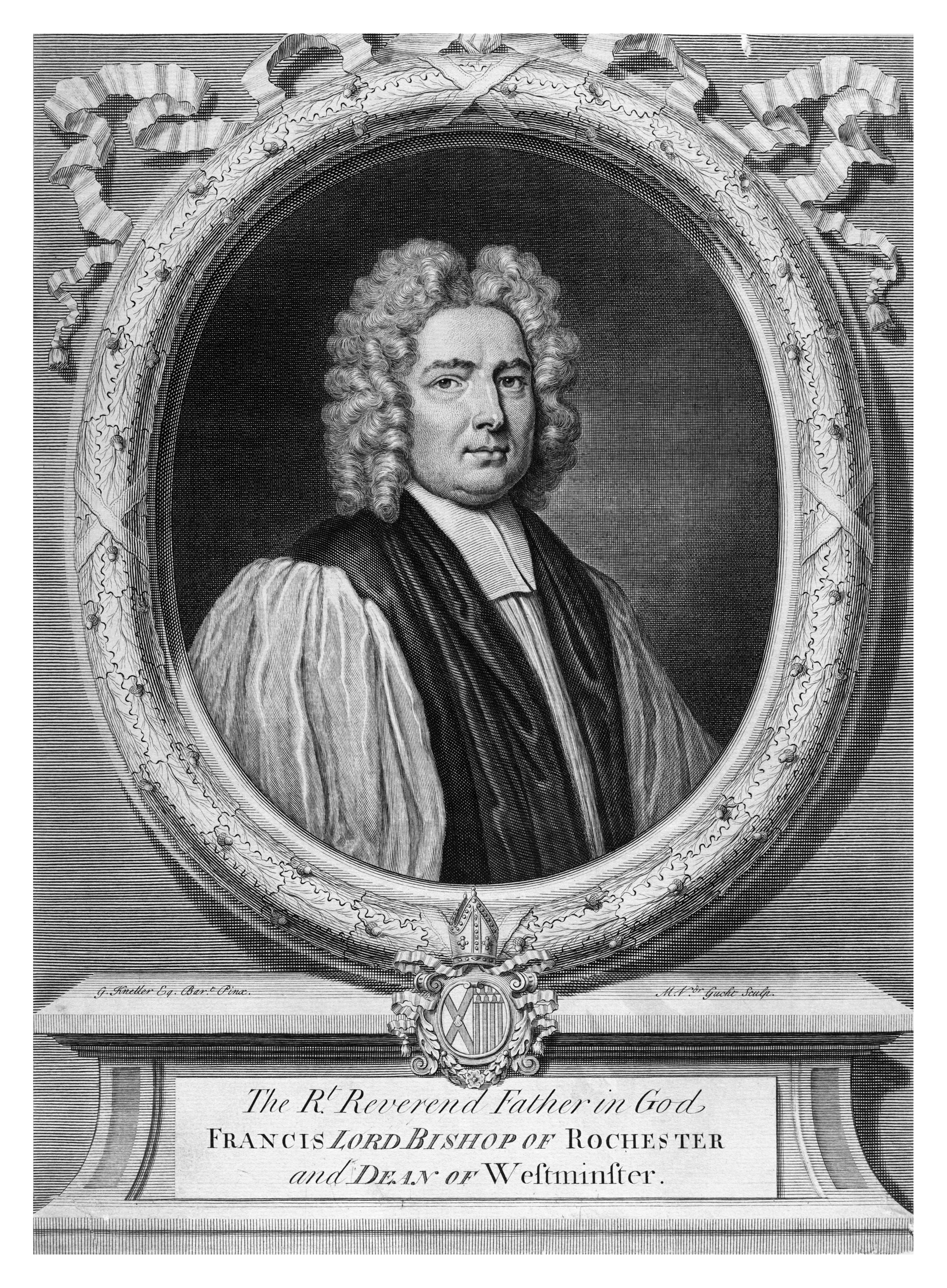 Jacobite broadside - Rt Reverend Father in God Francis Lord Bishop of Rochester and Dean of Westminster (derivative work)